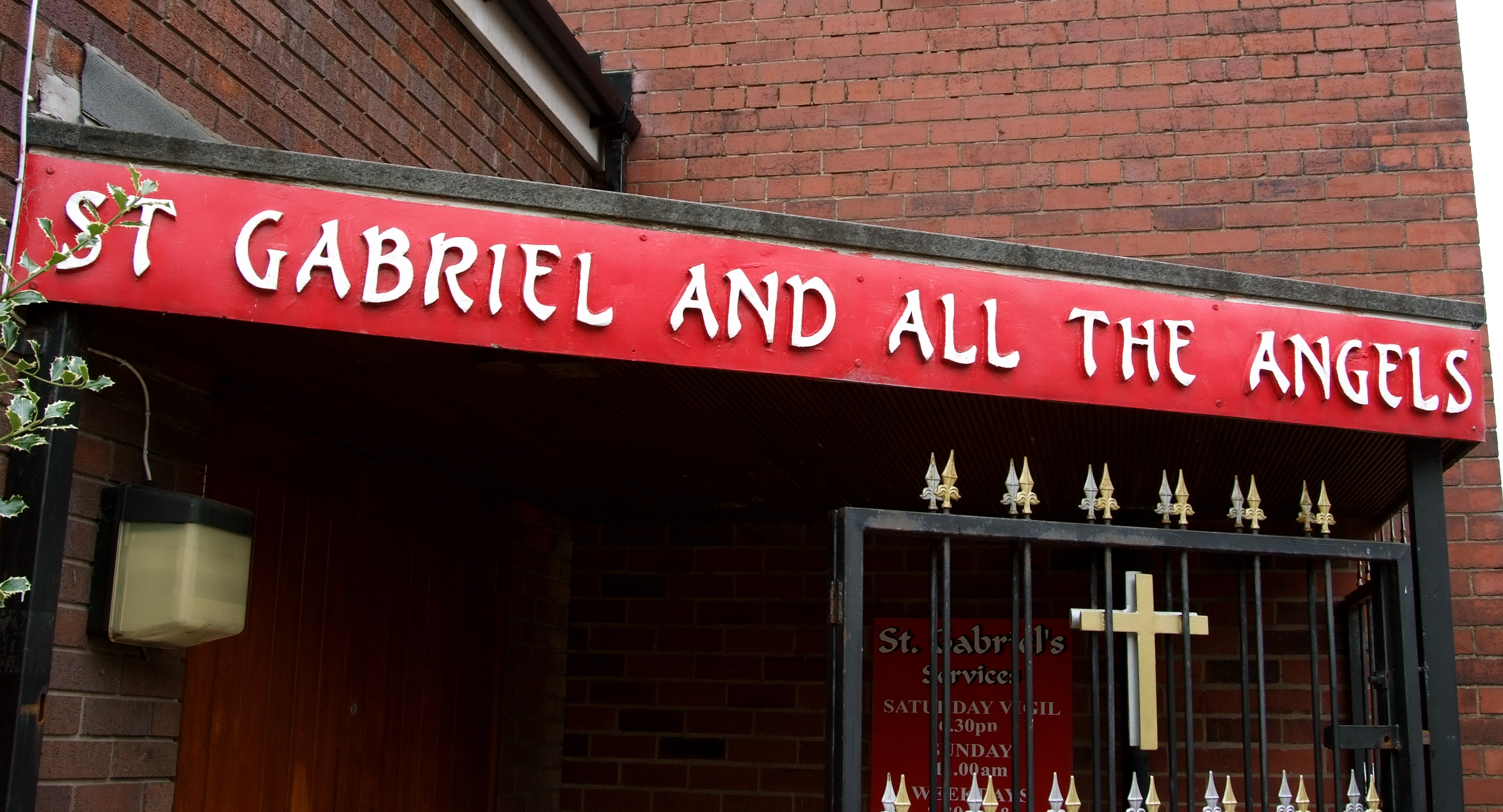 Front entrance of St Gabriel and the Angels Roman Catholic Church, Castleton, Greater Manchester, England.